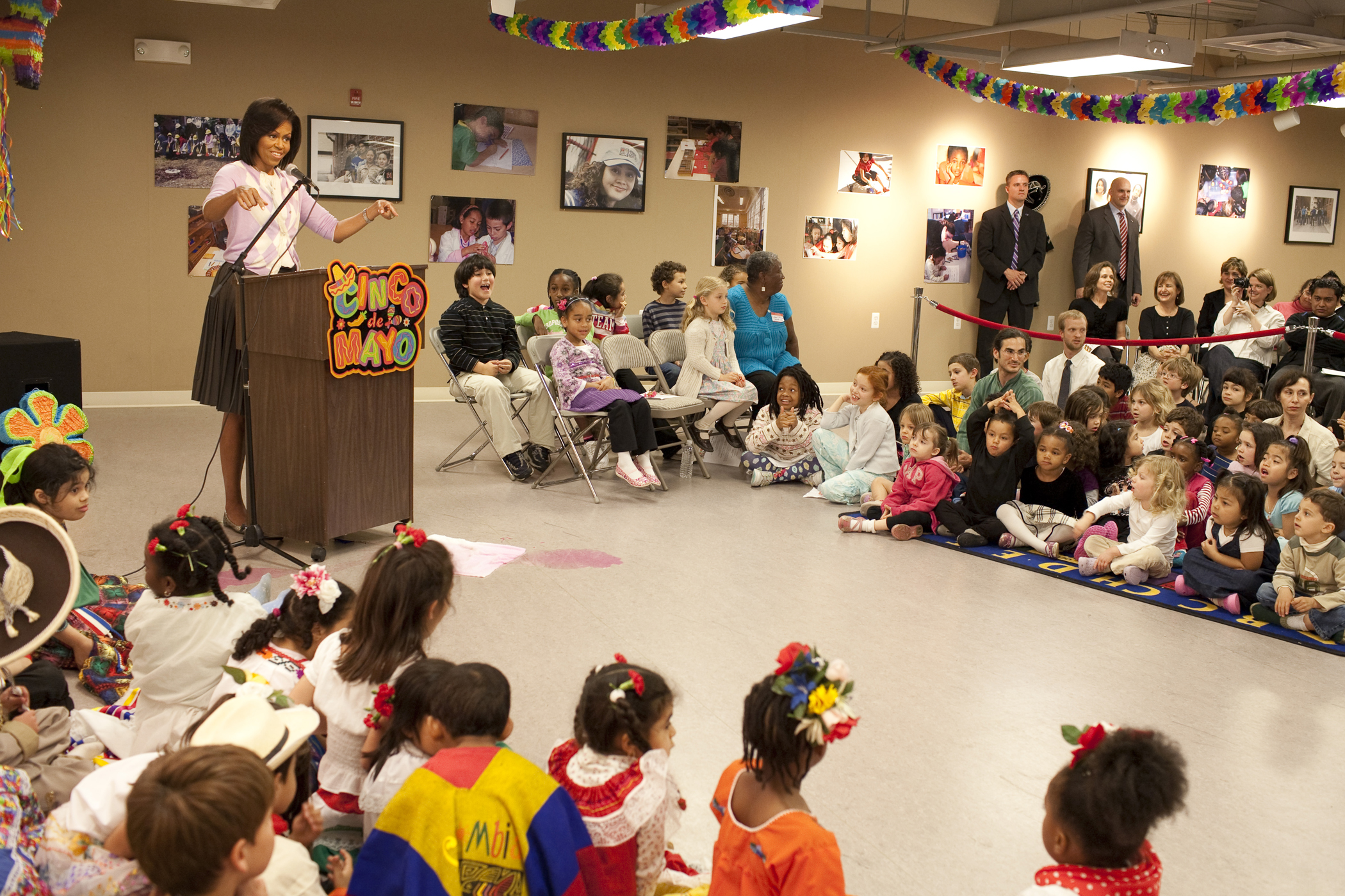 First Lady Michelle Obama attends Cinco de Mayo celebration program Monday, May 4, 2009, at the Latin American Montessori Bilingual Charter School in Washington, D.C.